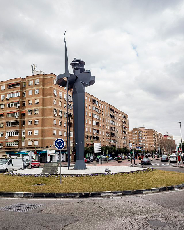 Glorieta de Don Quijote en Alcalá de Henares.